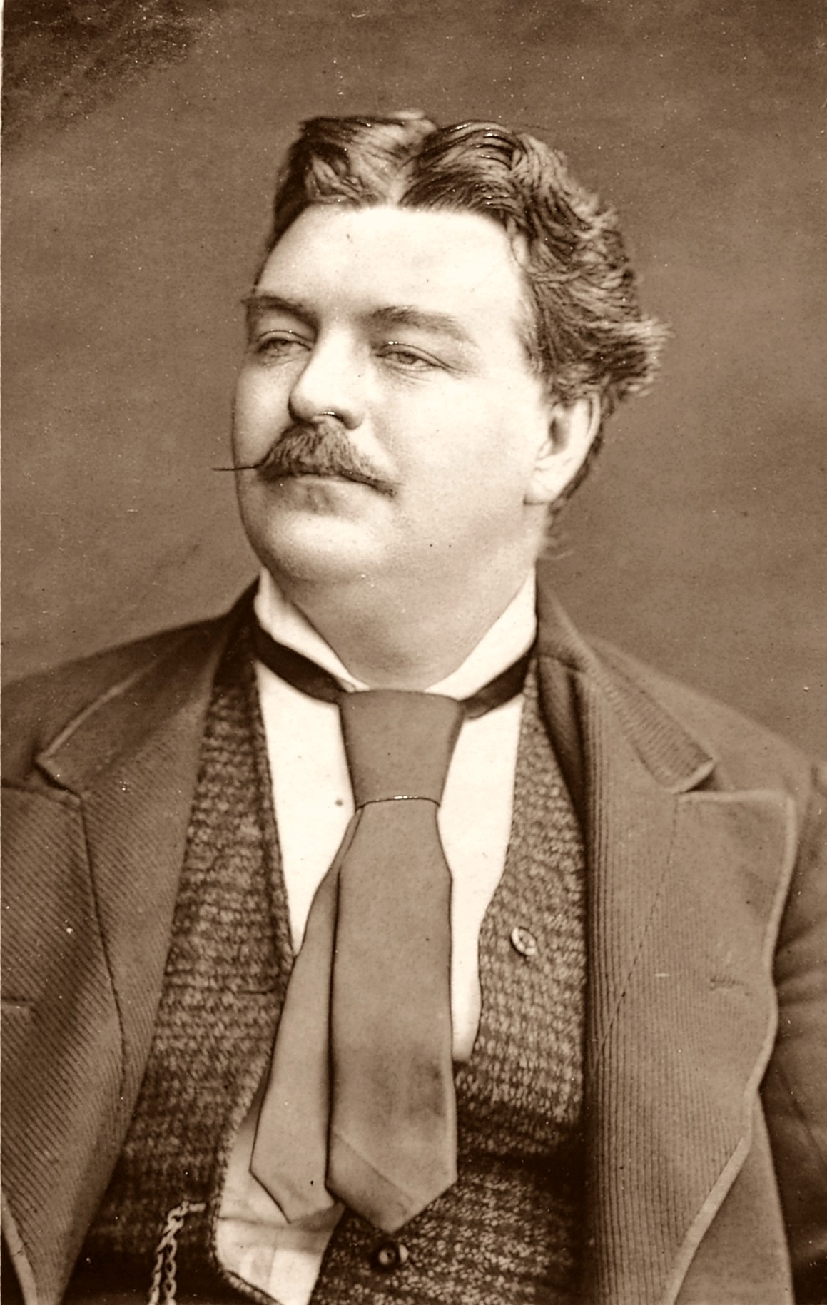 William Rignold, born William Rignall 1836-1904, English Actor.